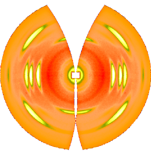 Fiber Diffraction data of WaxsPPrawlfig.png after mapping into the reciprocal space. Polypropylene